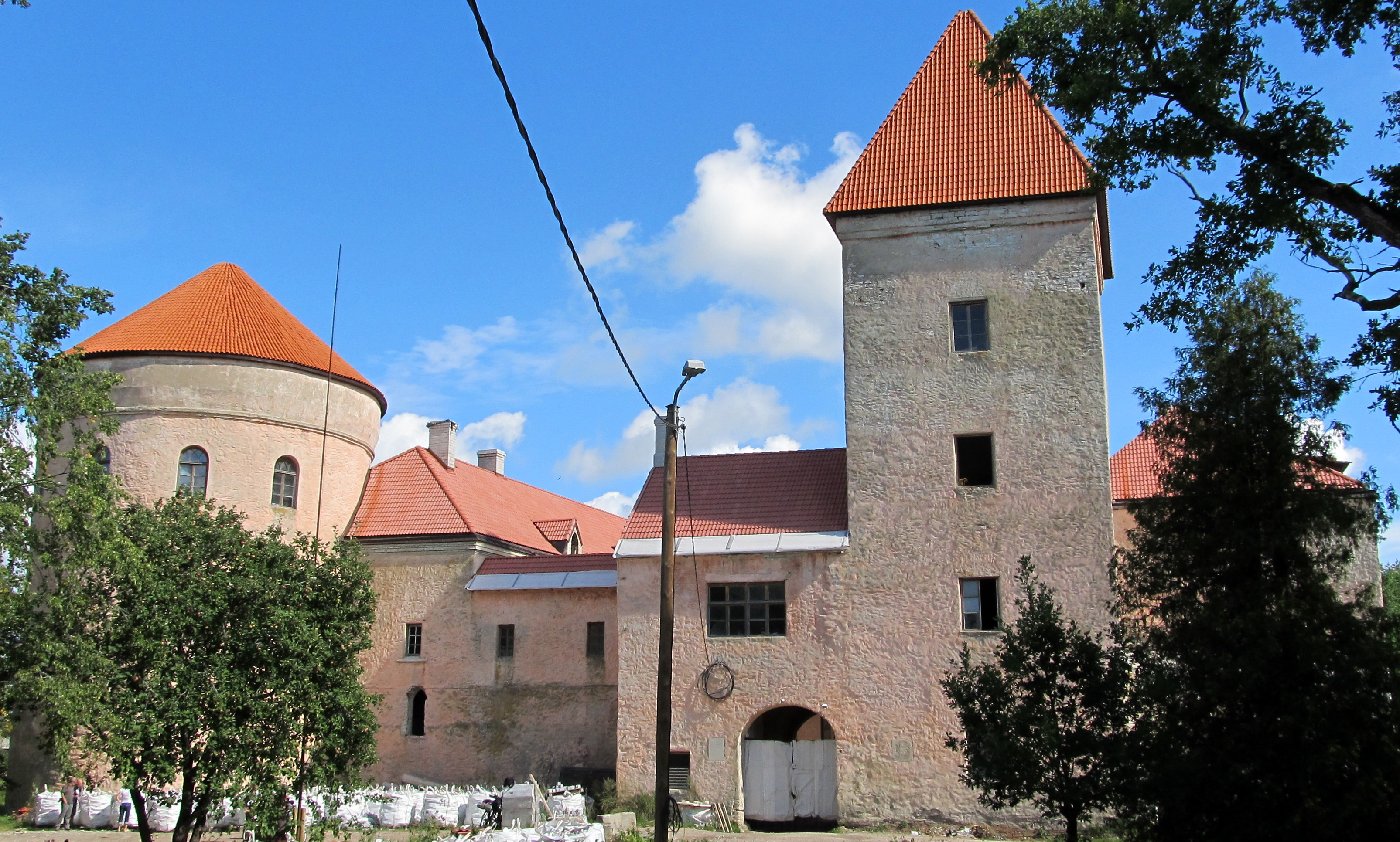 Koluvere castle from the main bridge